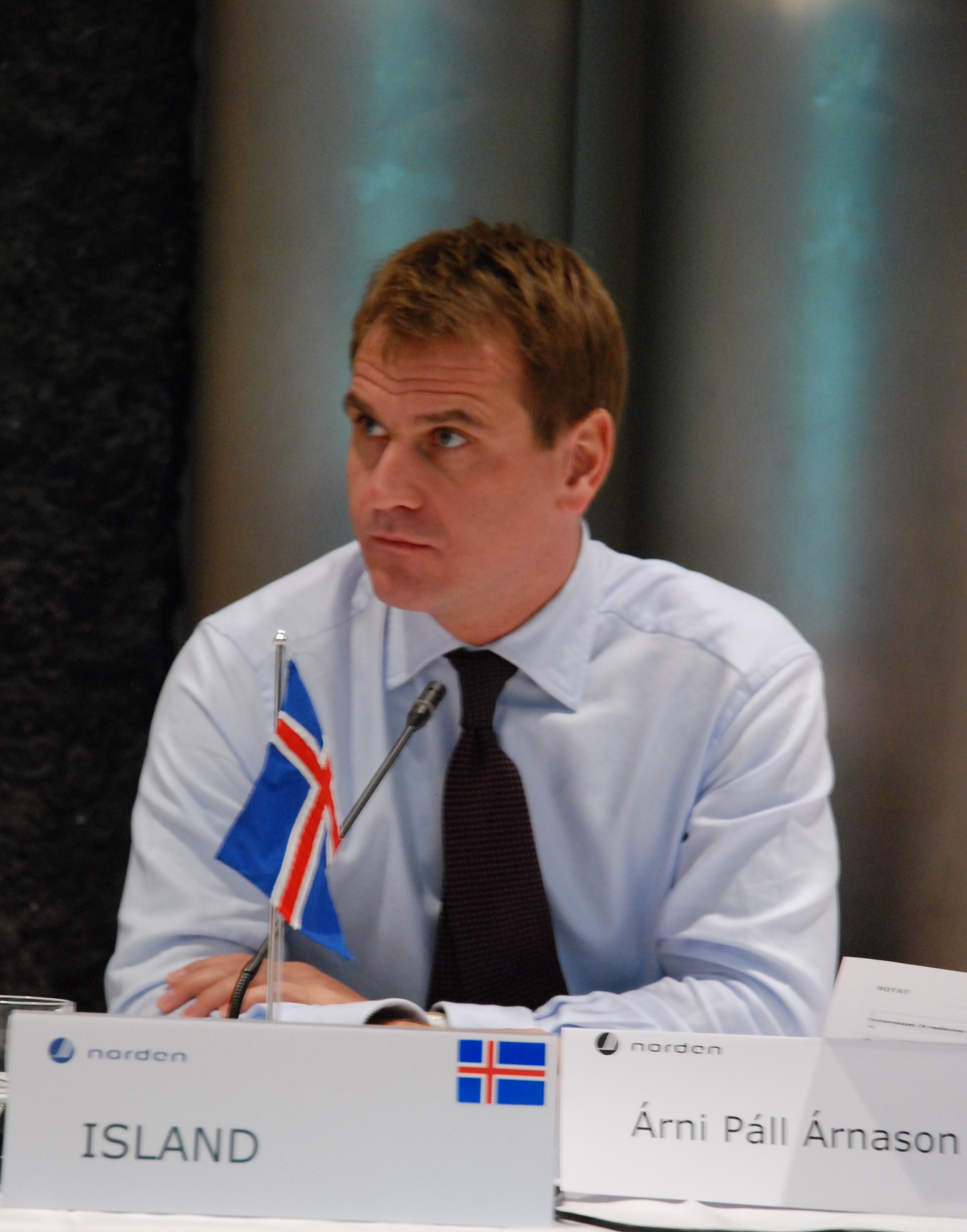 Sosial- og trygdeminister, Island Keywords: Árni Páll Árnason